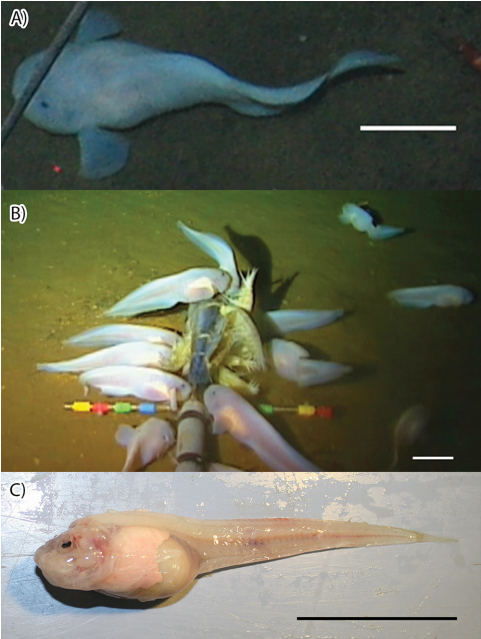 Pseudoliparis swirei (Scorpaeniformes: Liparidae), hadal snailfish from the Mariana Trench.